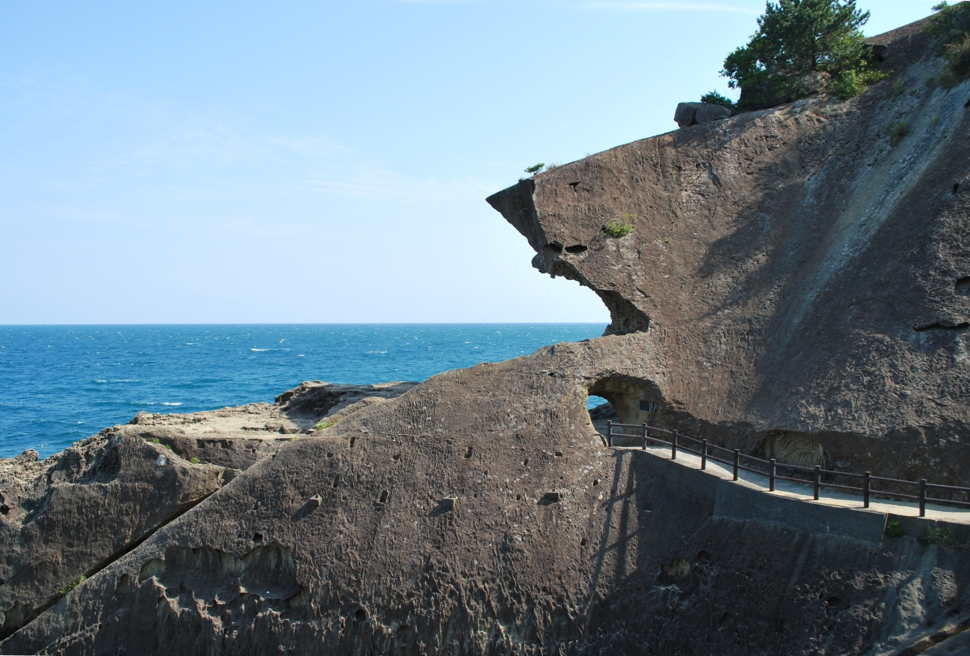 Oniga-jo at Kumano city